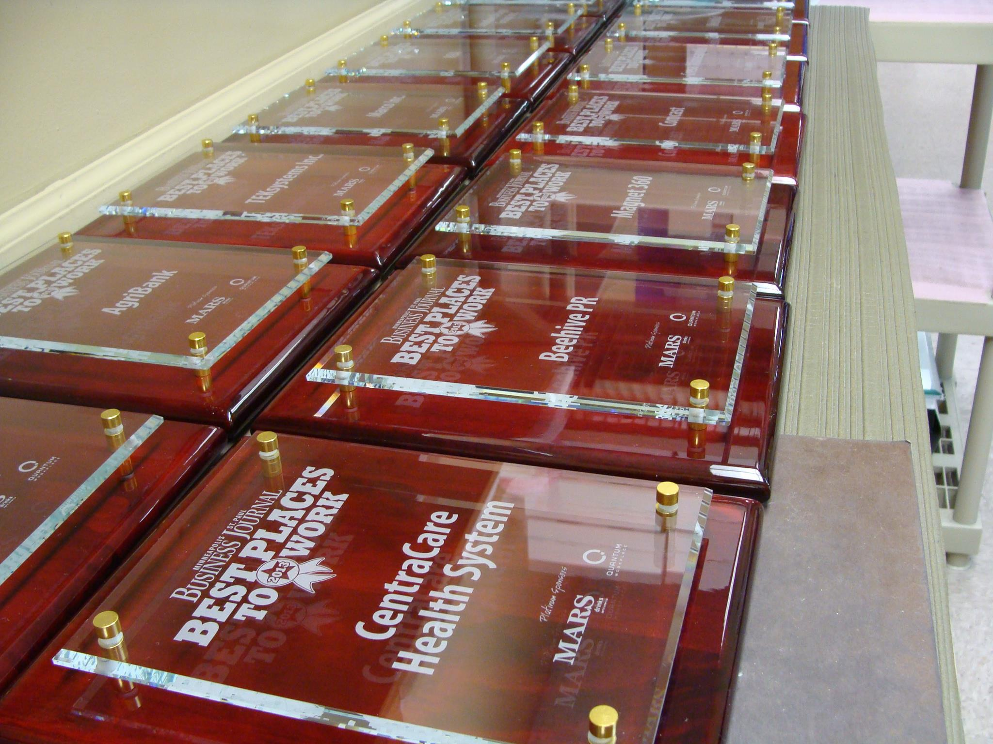 The Minneapolis-St. Paul Business Journal's Best Places to Work awards as they appeared in 2013